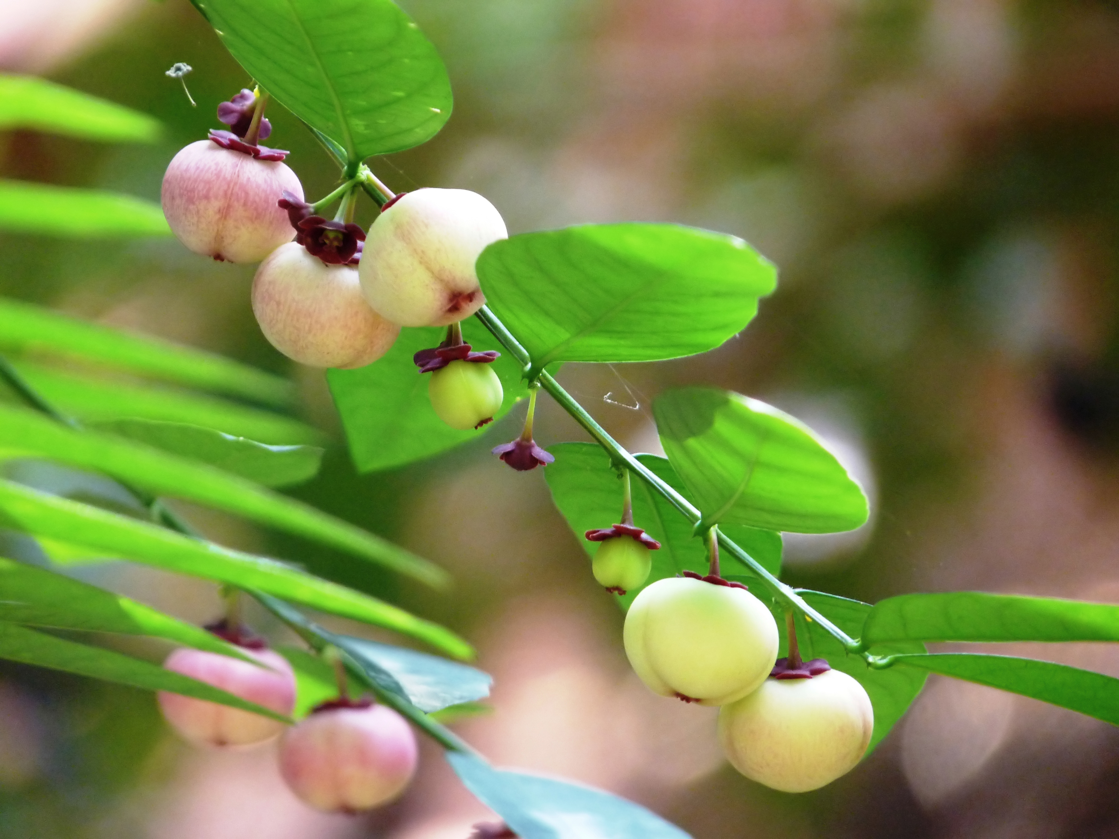 Sauropus androgynus, also known as Katuk, Star gooseberry, or Sweet leaf, is a shrub grown in some tropical regions as a leaf vegetable. In Chinese it is called Mani cai; in Japan it is called Amame Shiba;in Malay it is called Cekur manis, Sayur manis, or Asin-asin; in Thai it is called Pak waan; and in Vietnamese, it is called Rau ngót. In Kerala, it is called Malay Cheera. Its multiple upright stems can reach 2.5 meters high and bear dark green oval leaves 5–6 cm long. It is one of the most popular leaf vegetables in South Asia and Southeast Asia and is notable for high yields and palatability. The shoot tips have been sold as tropical asparagus. In Vietnam, the locals cook it with crab meat, minced pork or dried shrimp to make soup. In Malaysia, it is commonly stir-fried with egg or dried anchovies. The flowers and small purplish fruits of the plant have also be eaten In Indonesia, the leaves of the plant are used to make infusion, believed to improve the flow of breast milk for breastfeeding mothers.